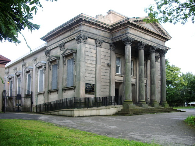 Greek Orthodox Church of the Annunciation, Bury New Road, Higher Broughton, Salford, Greater Manchester, seen from the west